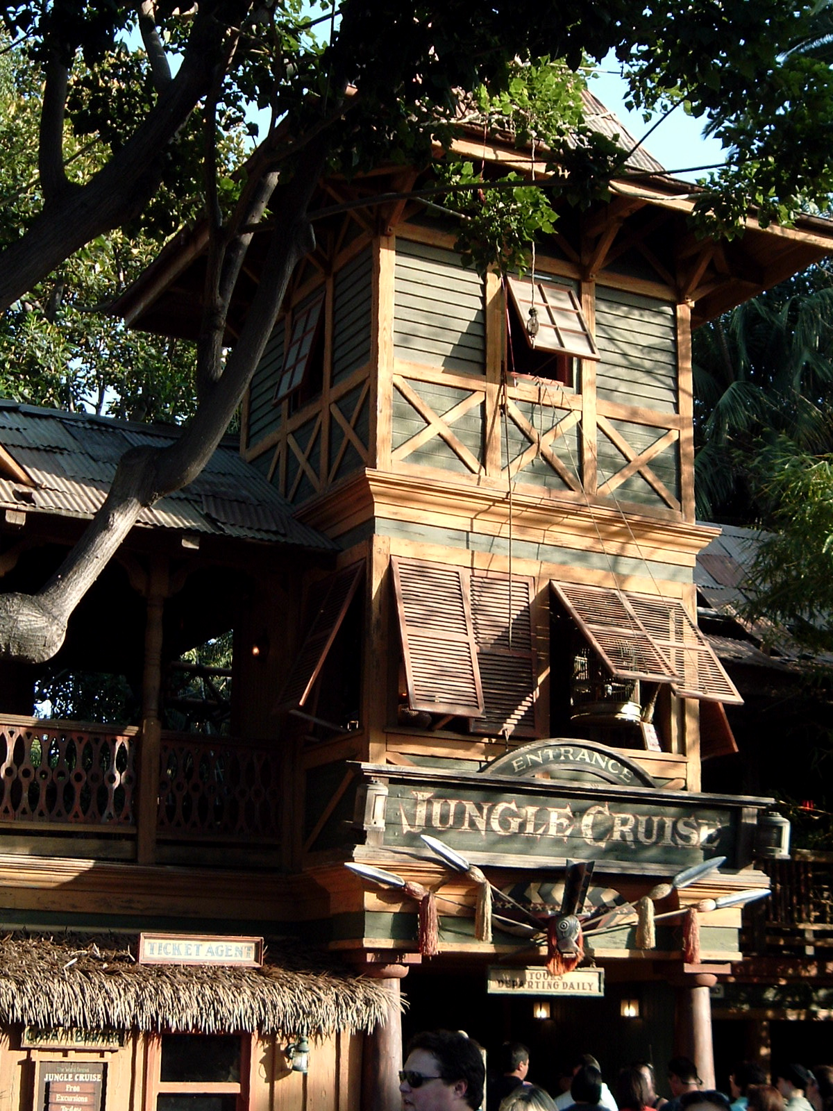 The Entrance to the cue line for Disneyland's World Famous Junge Cruise